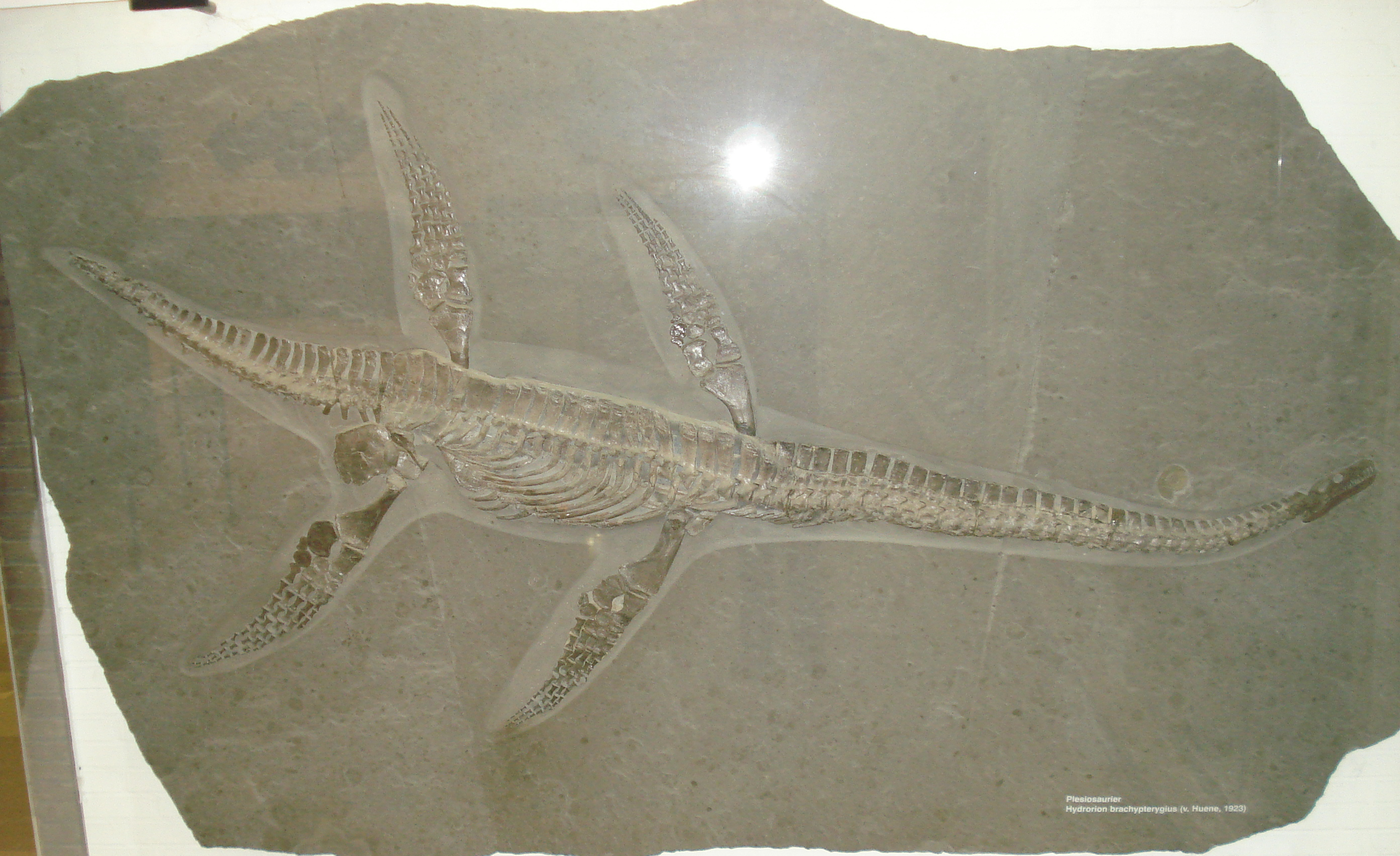 fossil of hydrorion